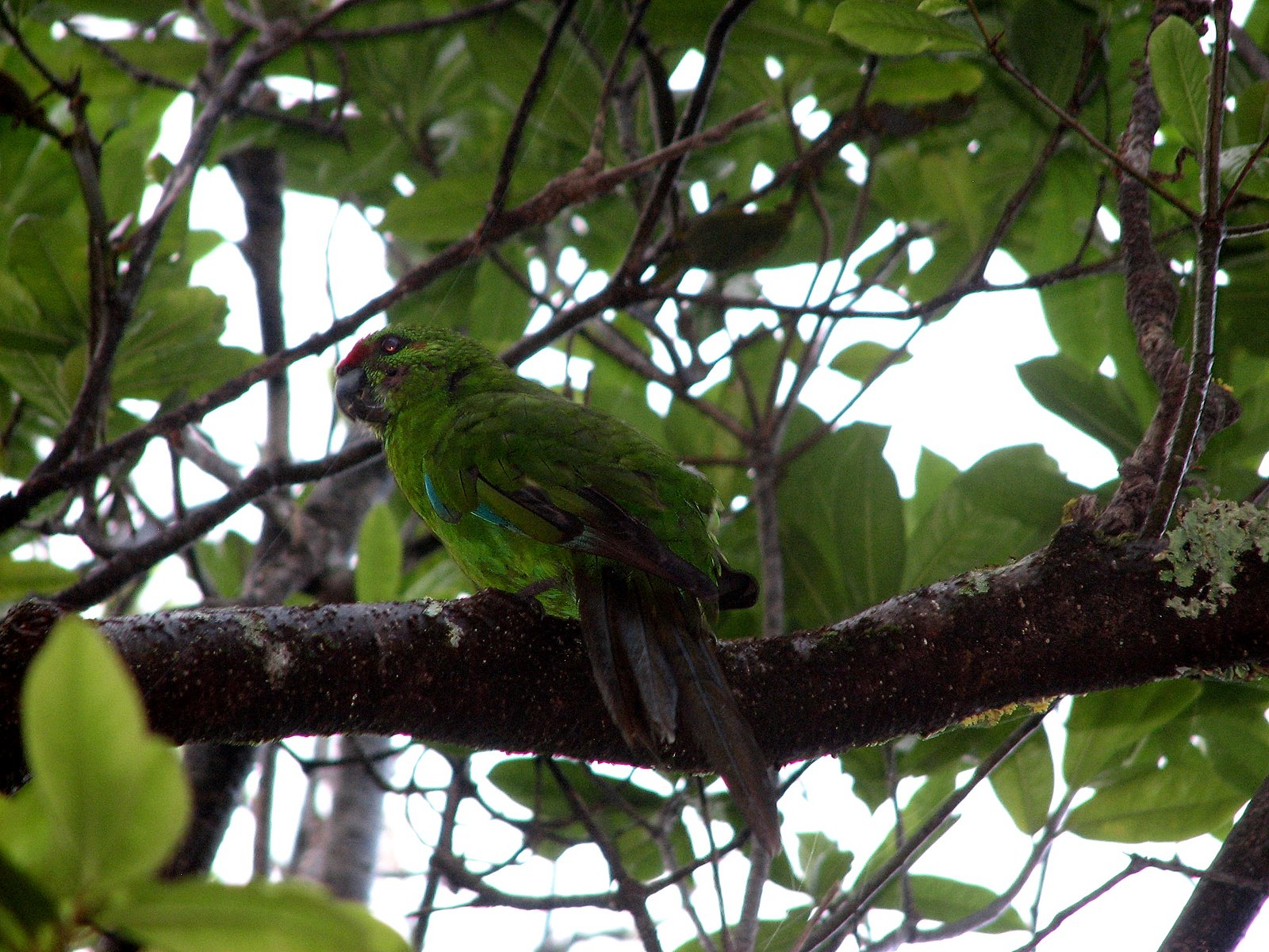 A juvenile Norfolk Parakeet (also called Tasman Parakeet, Norfolk Island Green Parrot or Norfolk Island Red-crowned Parakeet) in Palm Glen, Norfolk Island, Australia.